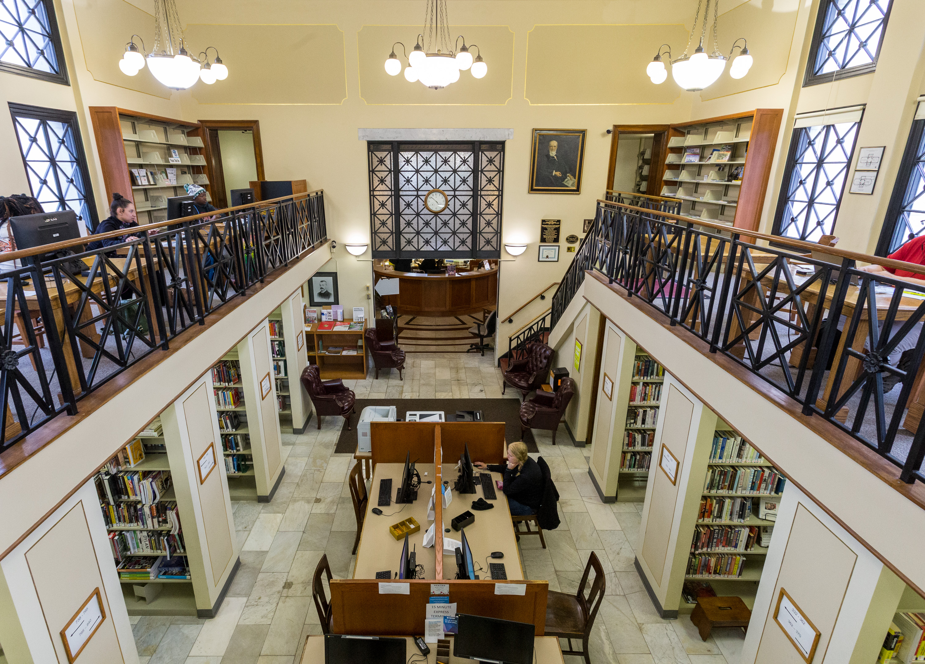 Gilbert M. Simmons Memorial Library. Kenosha, Wisconsin. Daniel Burnham, 1900.